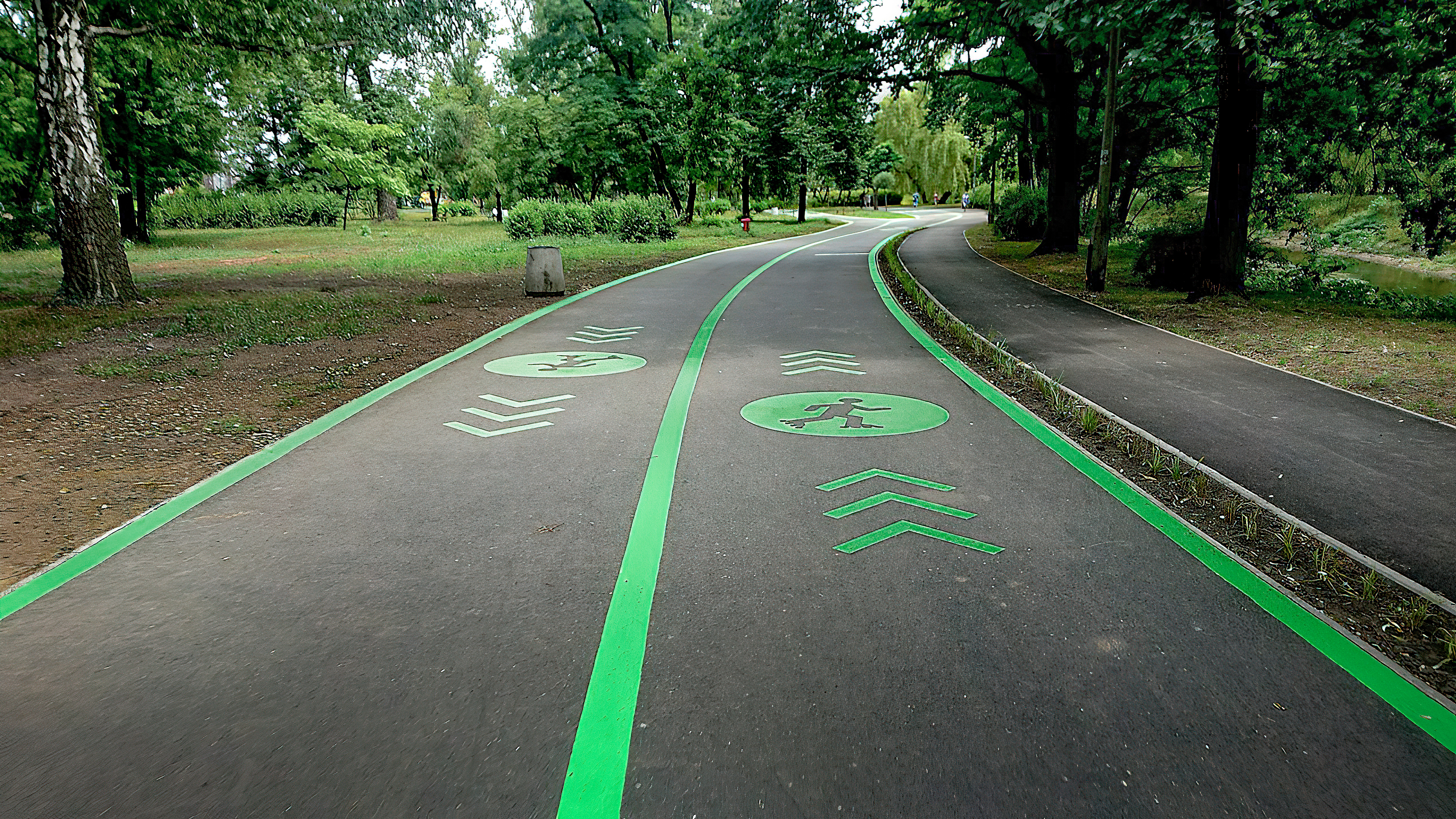 Inline Skating Trail in the new part of the Sielecki Park in Sosnowiec